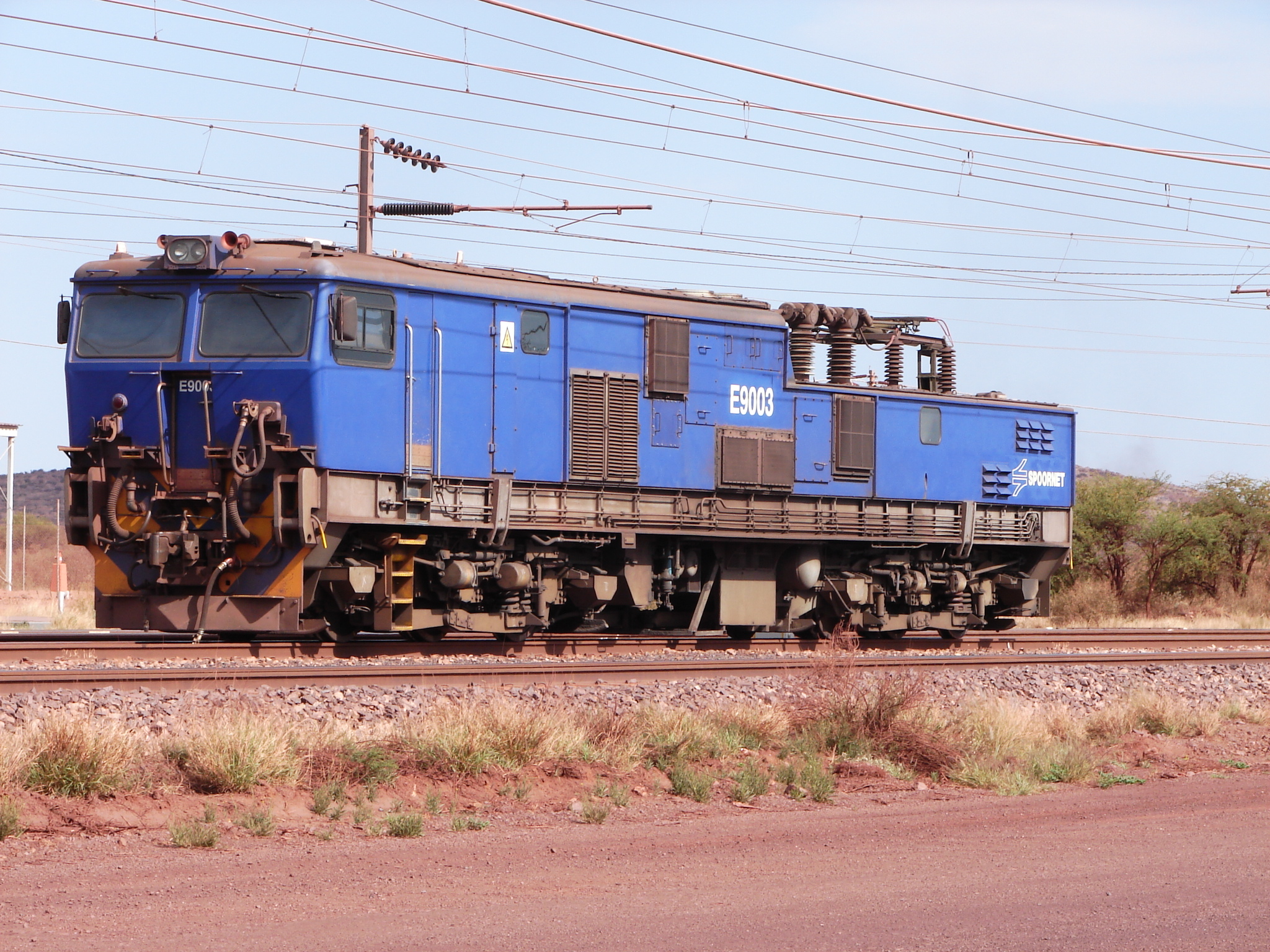 SAR Class 9E Series 1 no. E9003Builder's Number: GEC 5548Location: Erts Yard, Kathu, Northern Cape